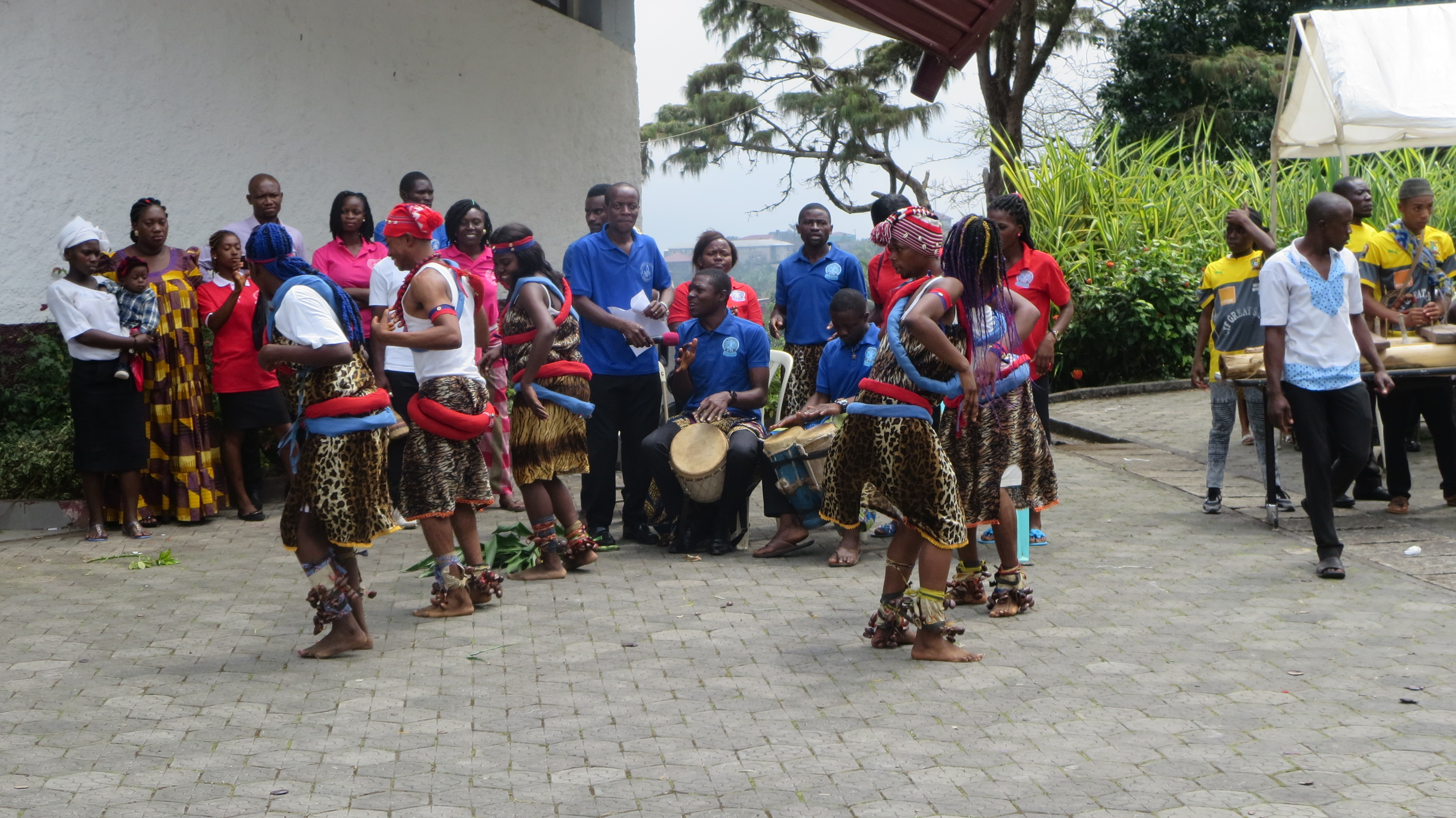 Bayangi is a tribe from Manyu subdivision in South West Region of cameroon. This dance was performed at the C.Y.F 60 years Diamond jubilee celebration at Presbyterian Church Buea station in the south west Region of cameroon This is an image with the theme "Play" from: Cameroon